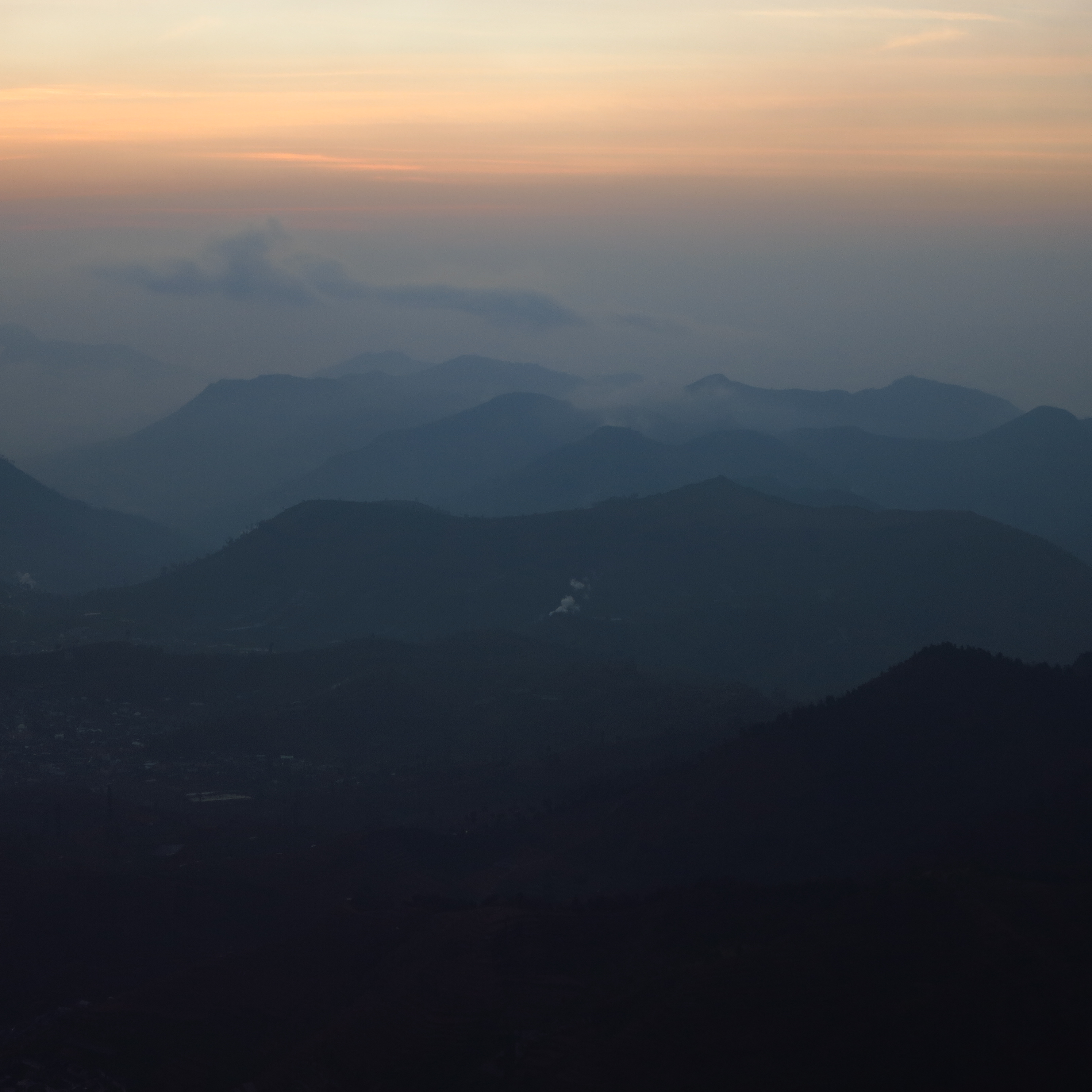 A view from the top of Mt. Prau, Dieng, Central Java, Indonesia